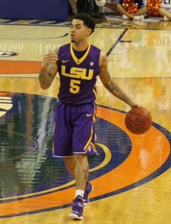 LSU vs Florida Gators 2015/01/20